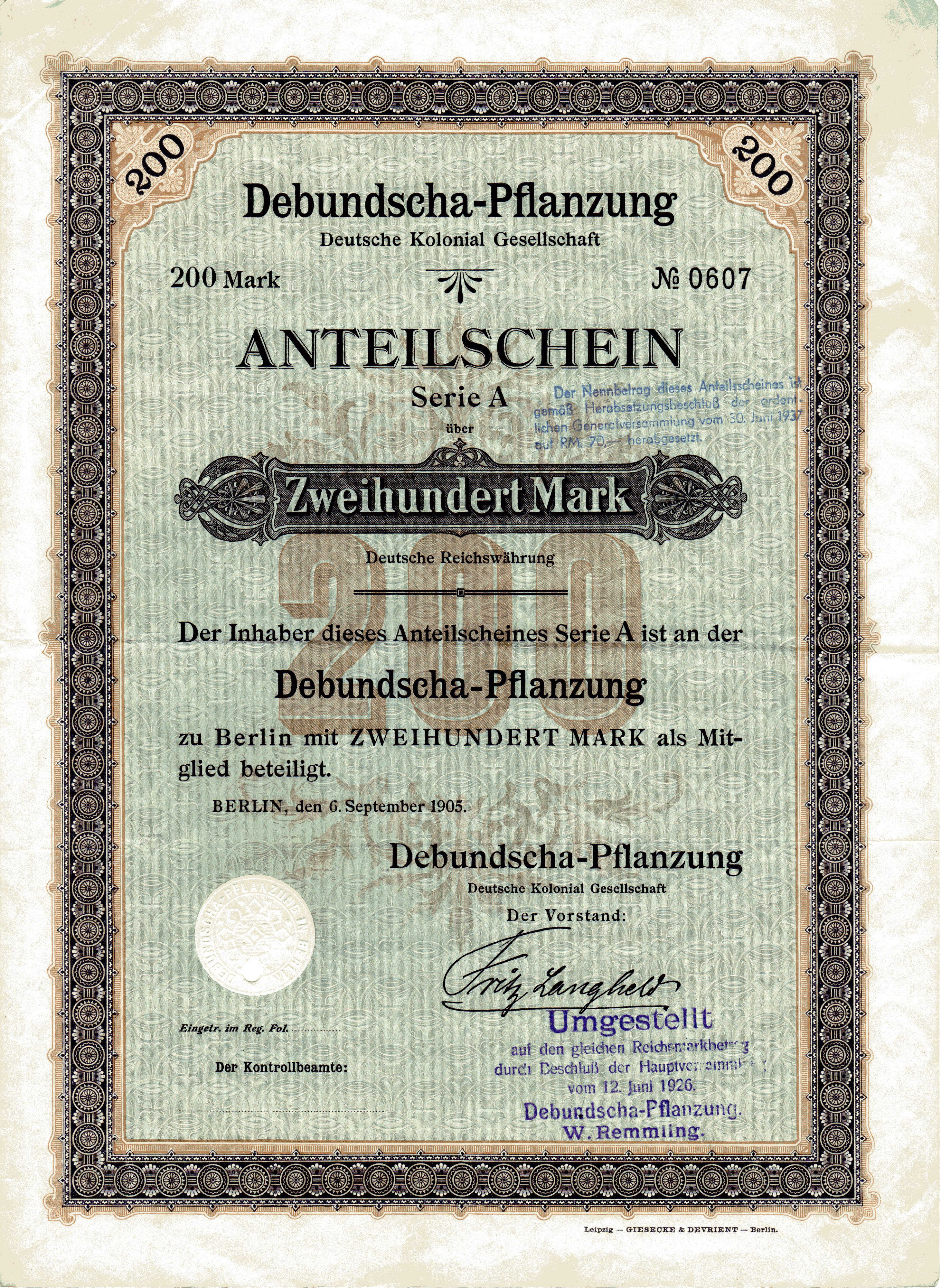 Share certificate of the Debundscha-Pflanzung Deutsche Kolonial Gesellschaft, issued 6. September 1905